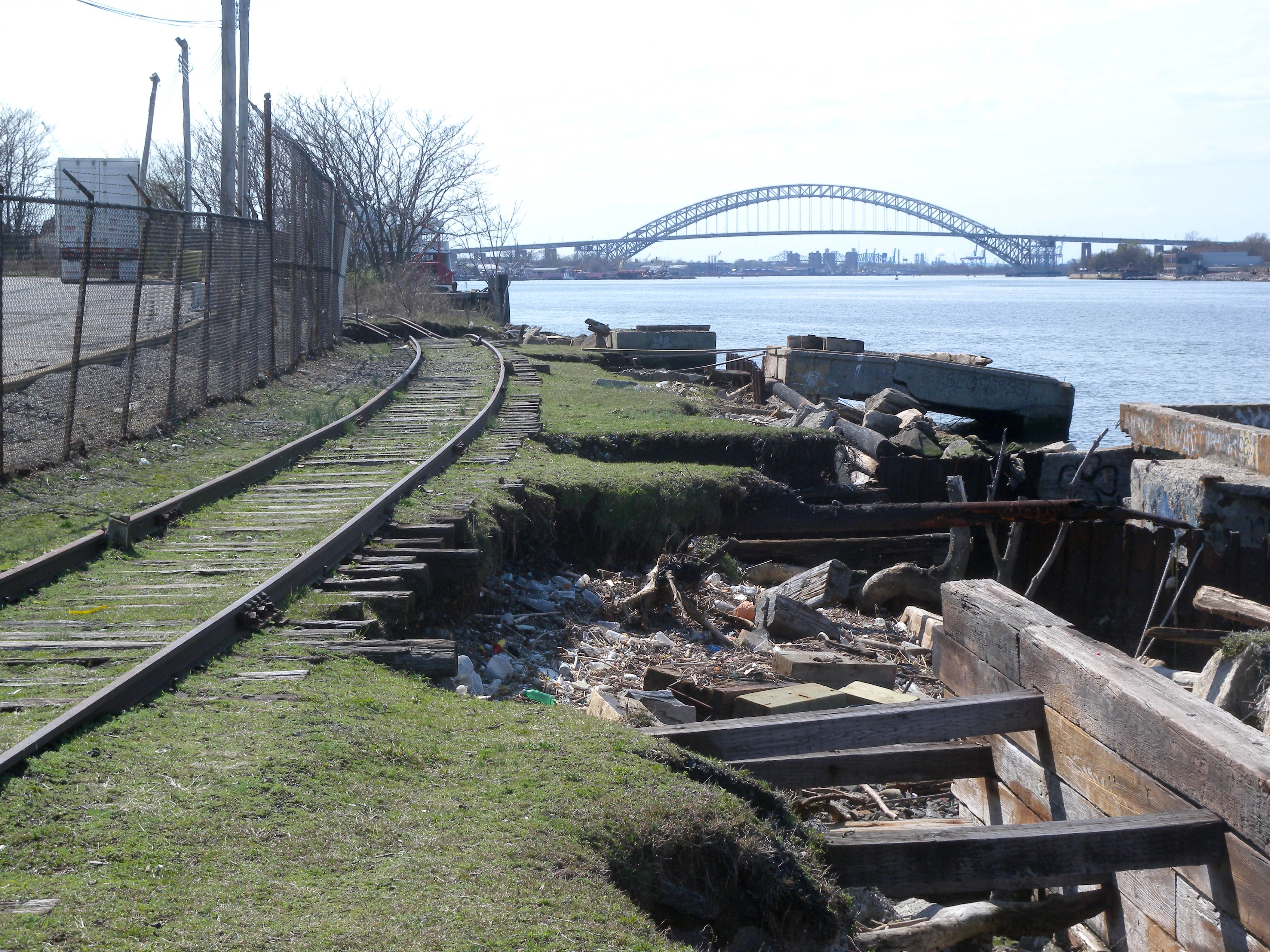 Looking west from west of Bard Avenue, at SIRT tracks and Bayonne Bridge on a sunny midday.